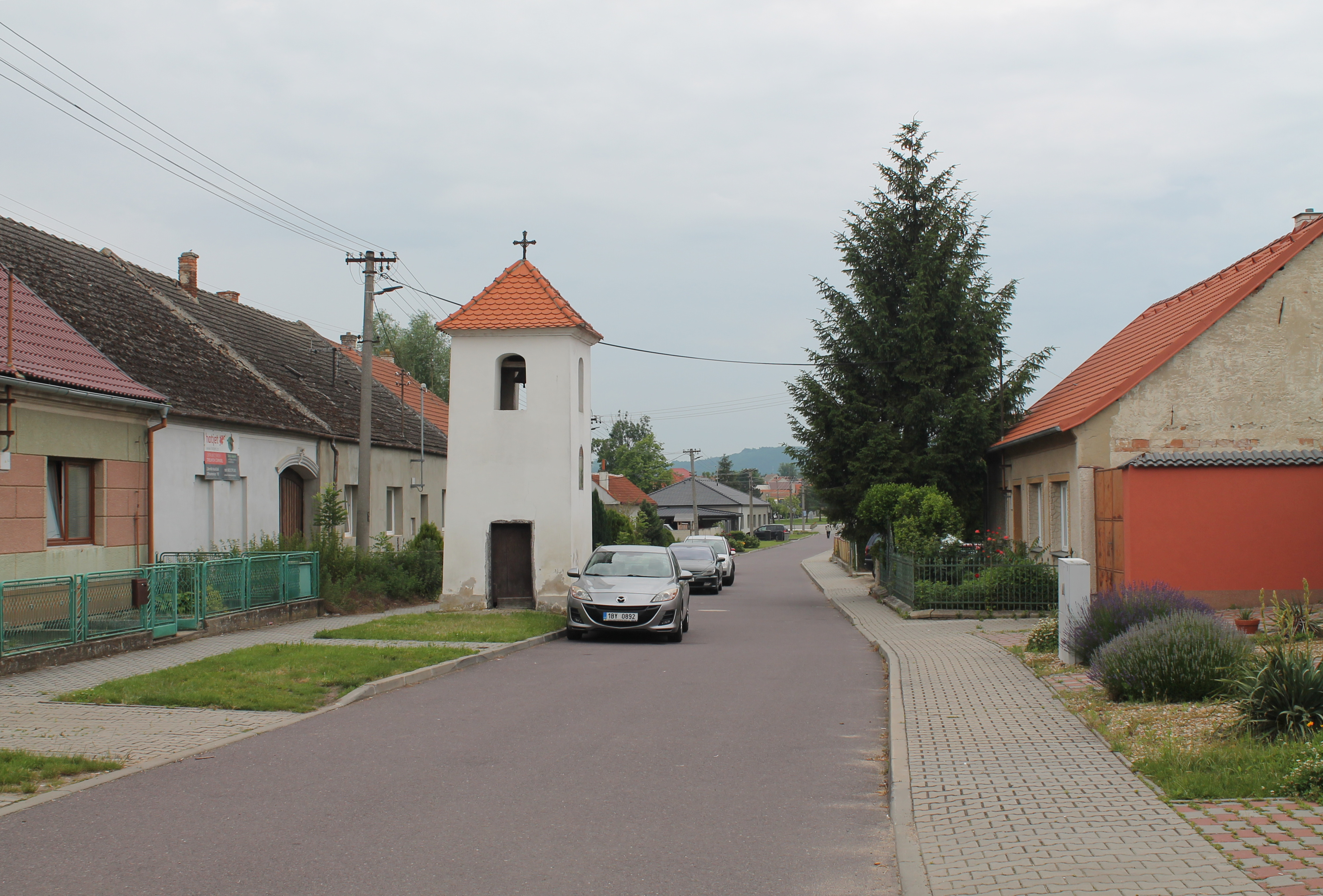 Babice, Olbramovice, Znojmo District, Czech Republic